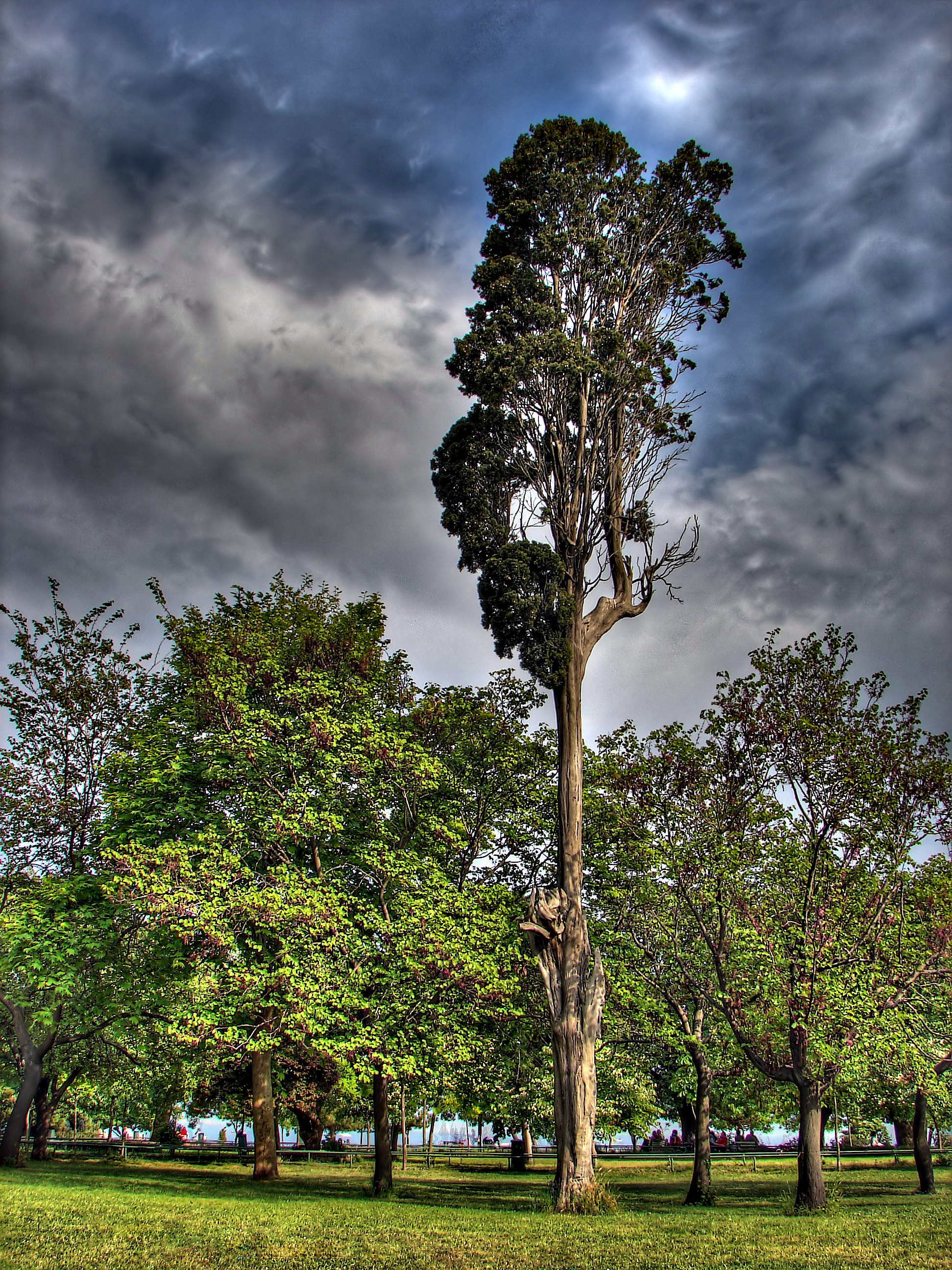 Mediterranean Cypress Cupressus sempervirens, (cultivated, old specimen) at Fenerbahçe Park, Istanbul. HDR image